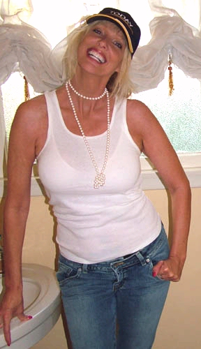 This is my own work. I took tis picture myself of Kathy Shower in 2005.